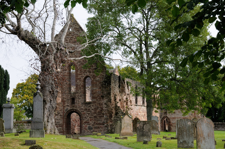 Beauly Priory was founded around 1230 by monks of the Valliscaulian order. After their successors had lived in the abbey for about 300 years, it eventually fell into ruins as a result of the Protestant Reformation of 1560. Today it is one of the main visitor attractions in the Inverness area.